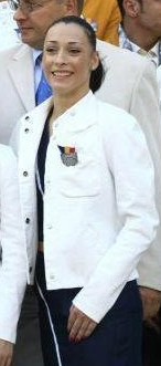 Catalina Ponor before 2012 Olympics Games